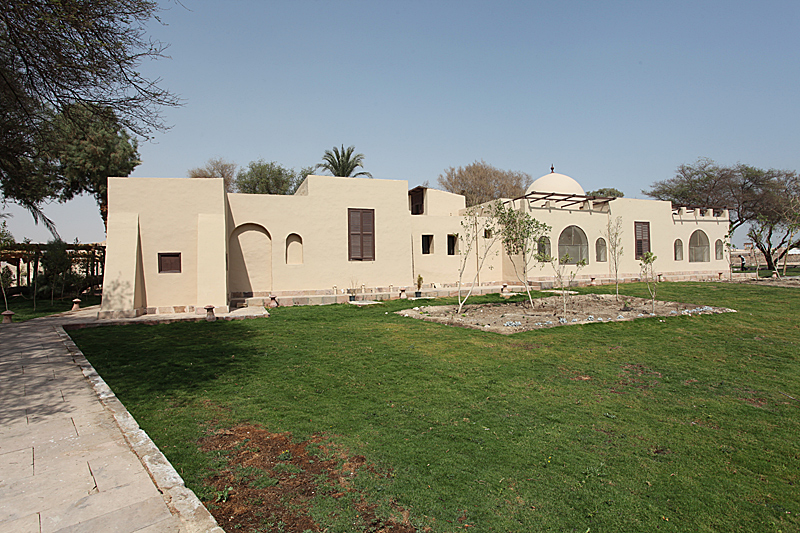 South side of the house, Carter House, Luxor West Bank, Egypt